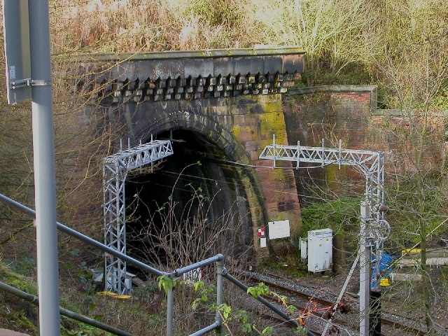 Kilsby Tunnel. South Portal on Main West Coast Line.Taken from road to Ashby St ledgers.